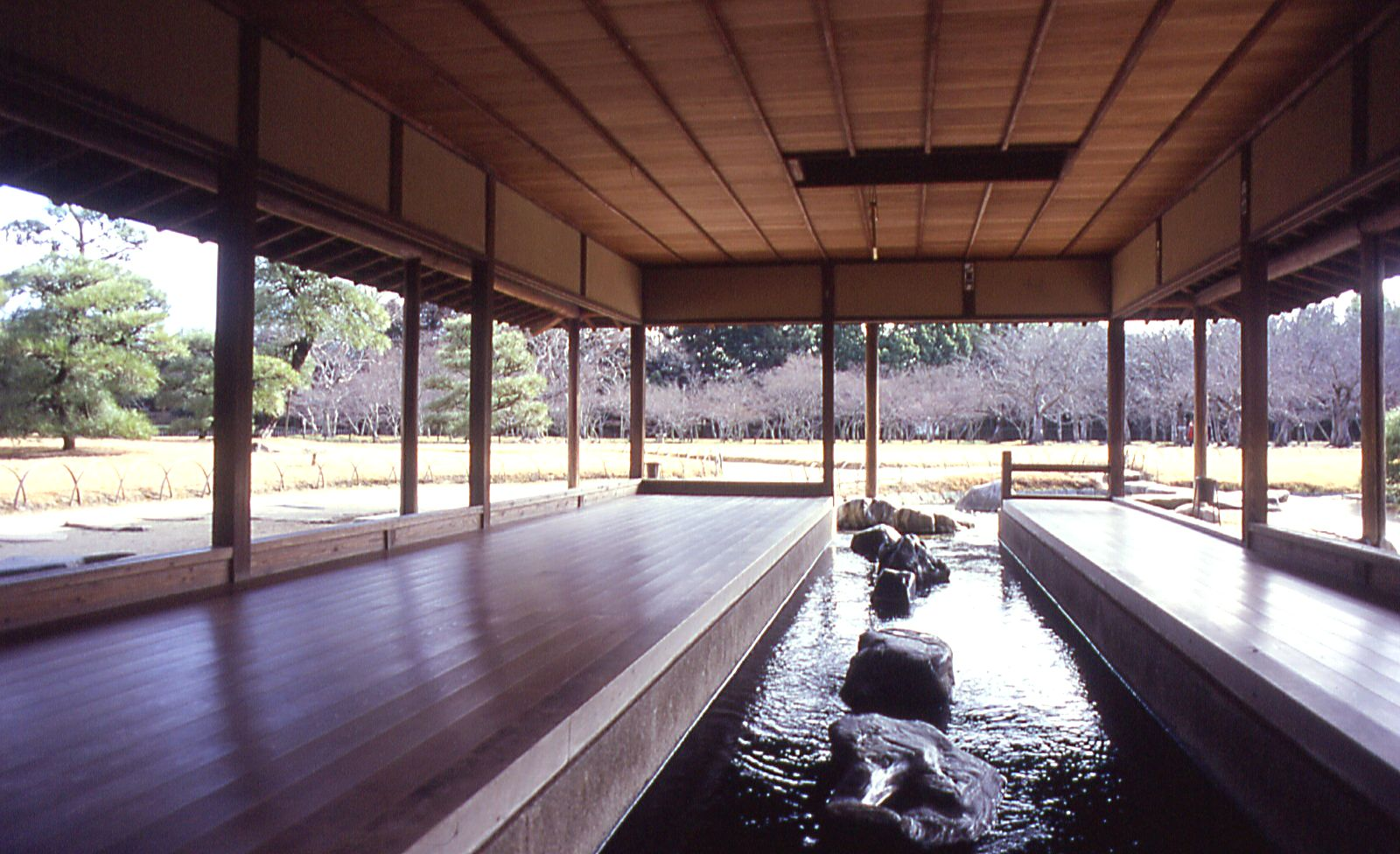 The Ryuten in Korakuen, end of XVII century, Okayama